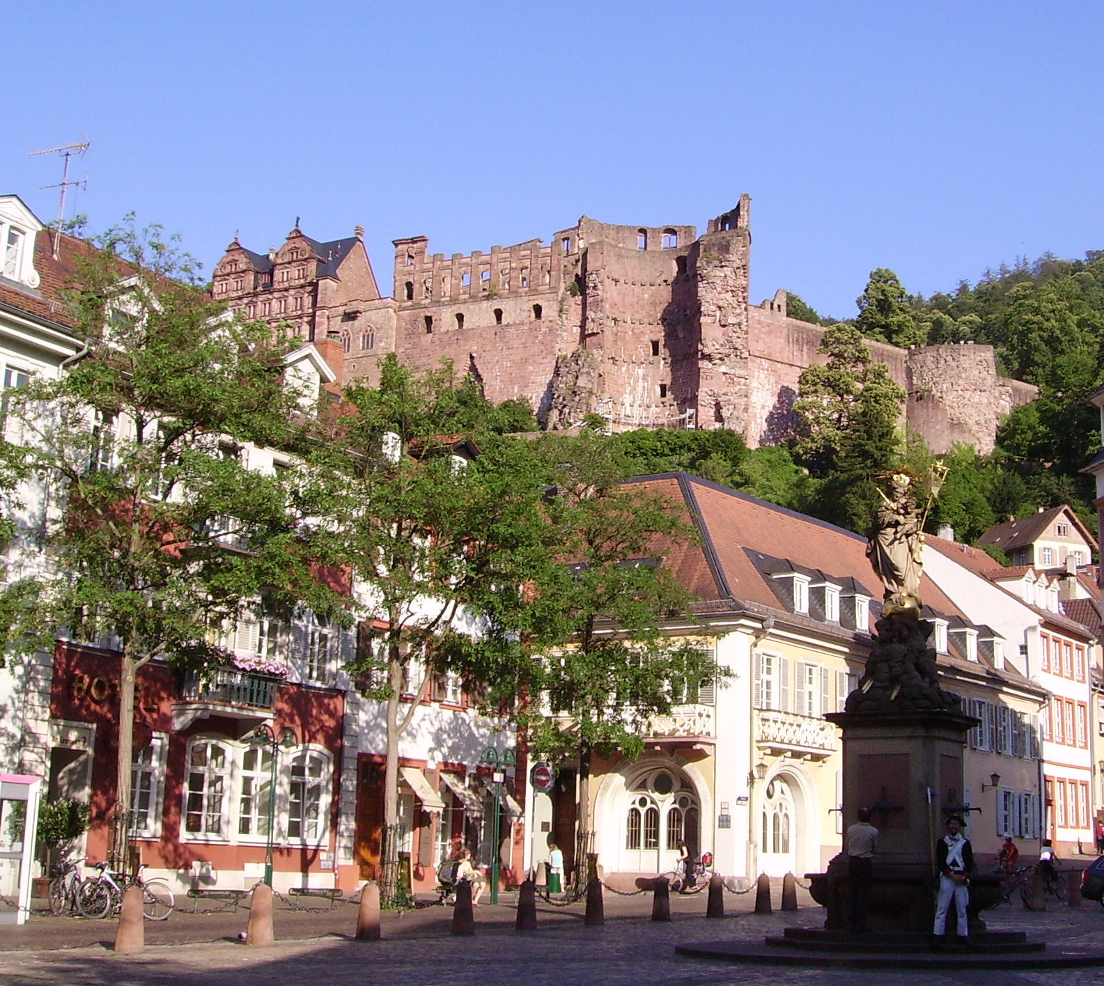 Heidelberg castle (Heidelberger Schloss)